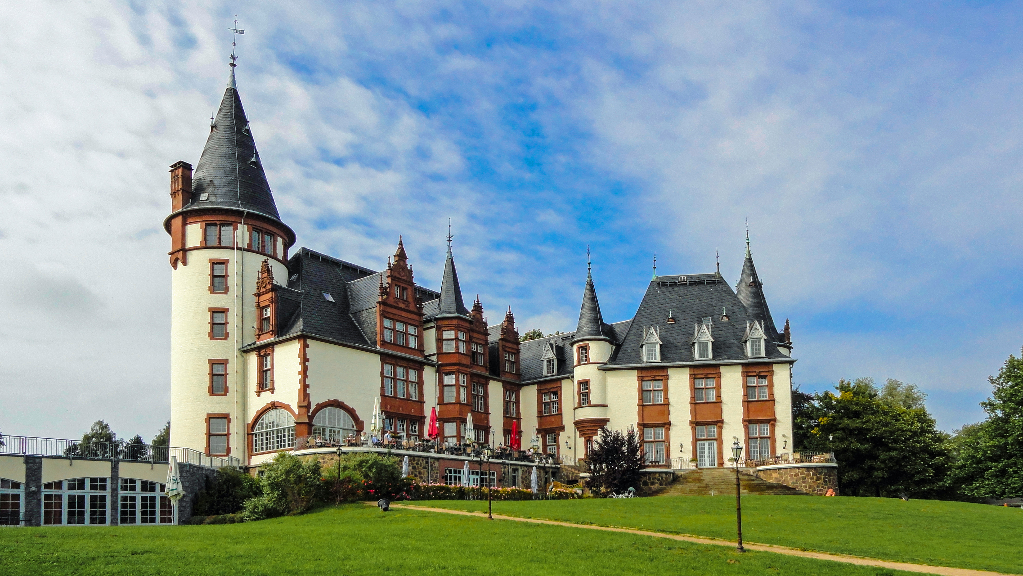 Castle of Klink in Germany, Mecklenburg-Vorpommern, 17192 Klink.